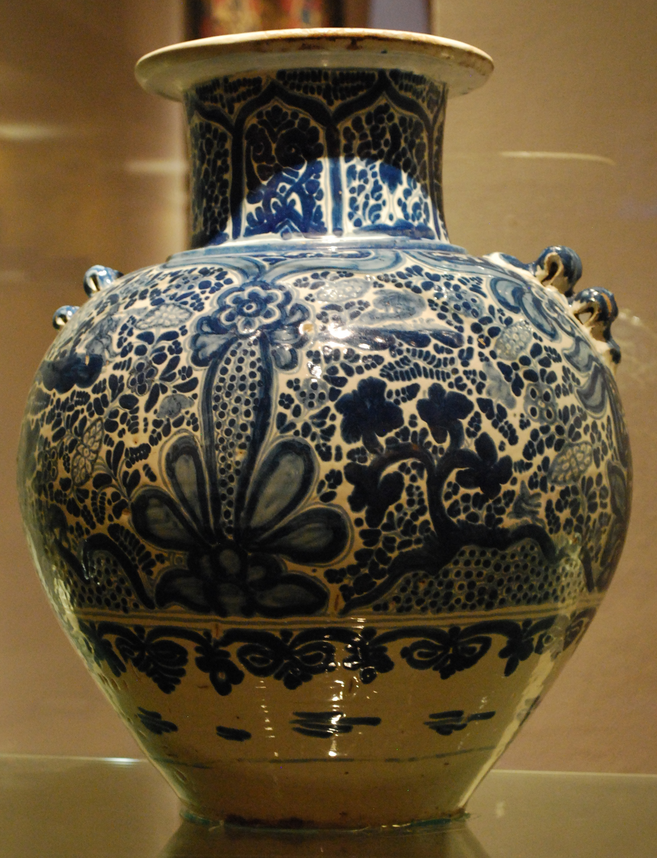 19th century vase at the Franz Mayer Museum in Mexico City